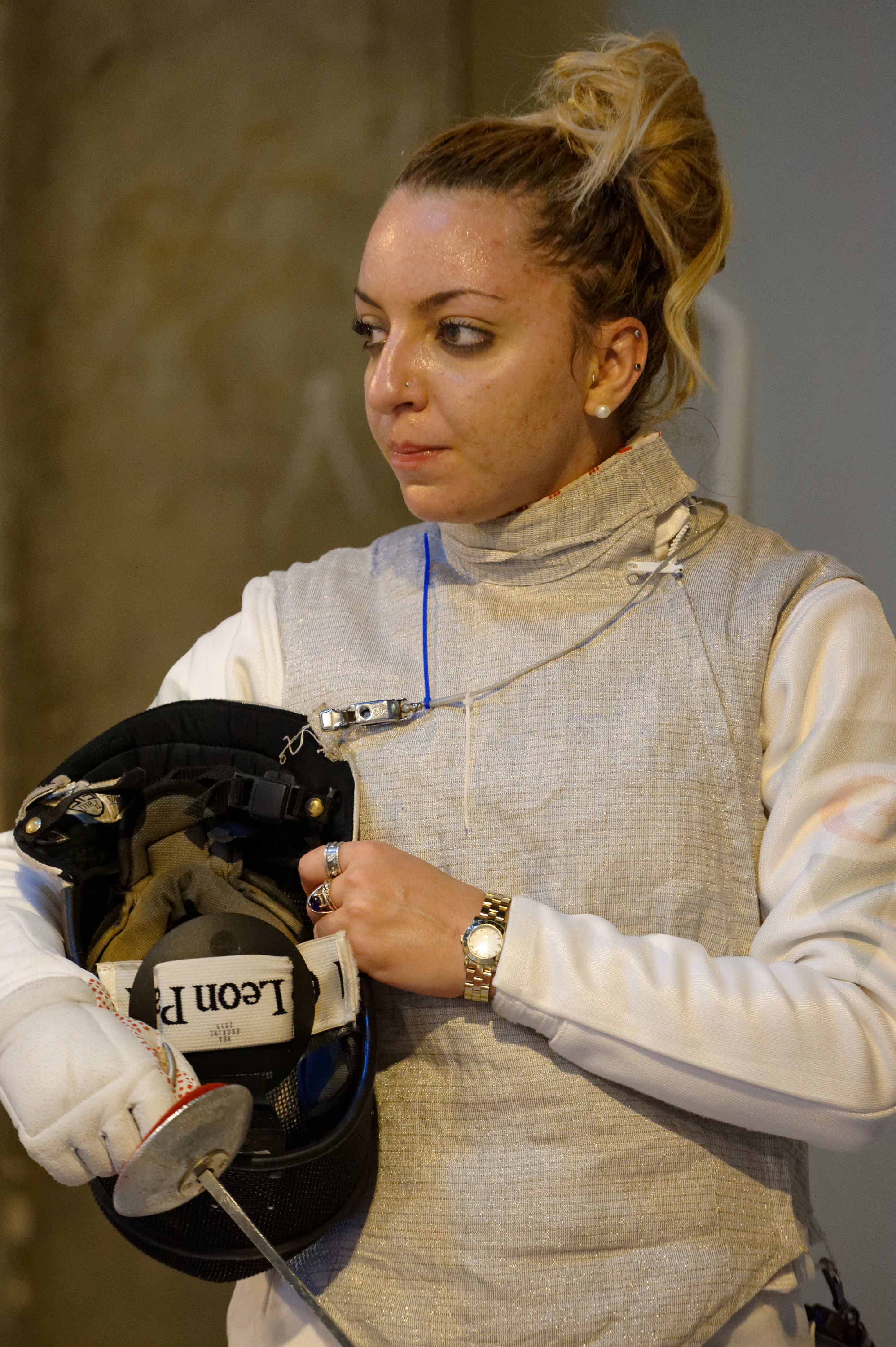 Algeria's Anissa Khelfaoui at the pools stage of the 2015 Saint-Maur women's foil World Cup.